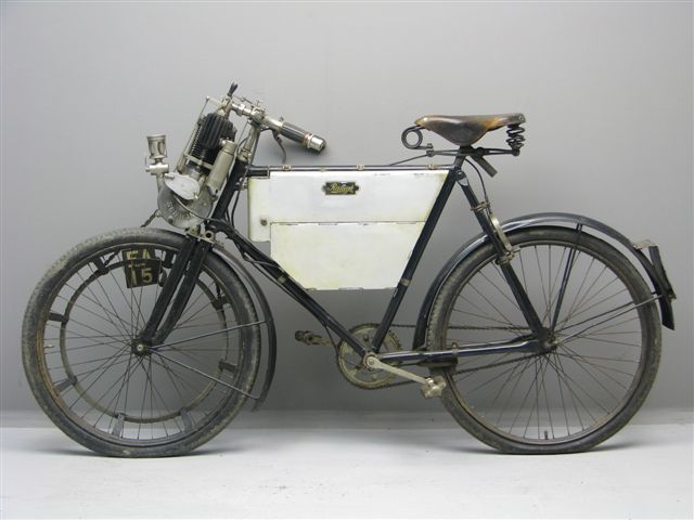 Raleigh Schwan 239 cc 2 hp motorcycle "Sir Walter" from 1902.